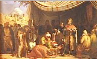 19th century